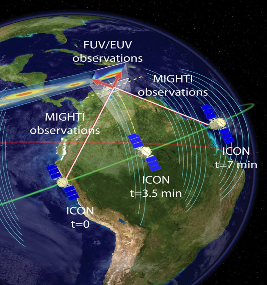 This is an artists impression of the ICON spacecraft in orbit around the Earth.